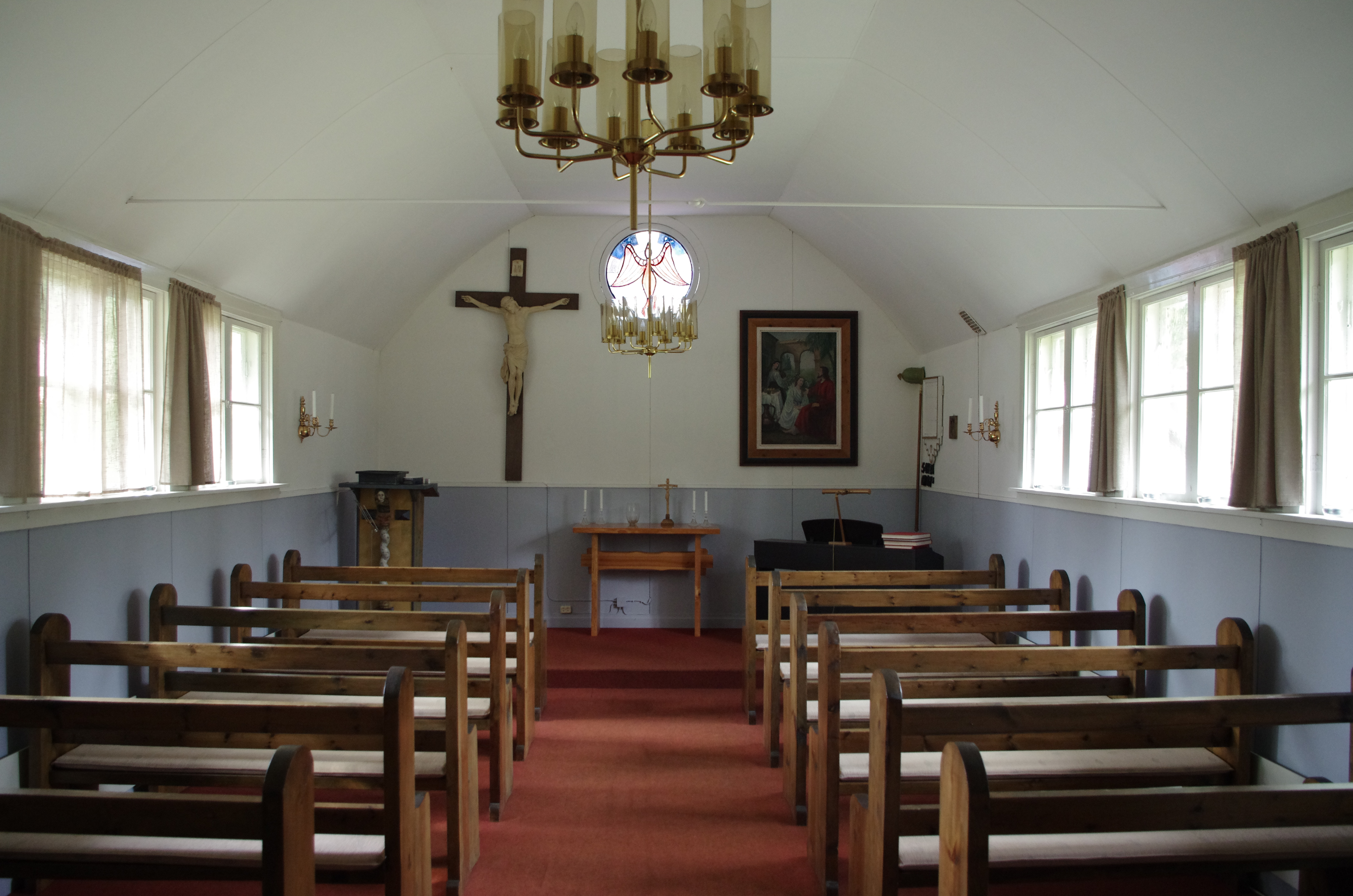 Blåhult chapel, Tidaholm municipality, Sweden